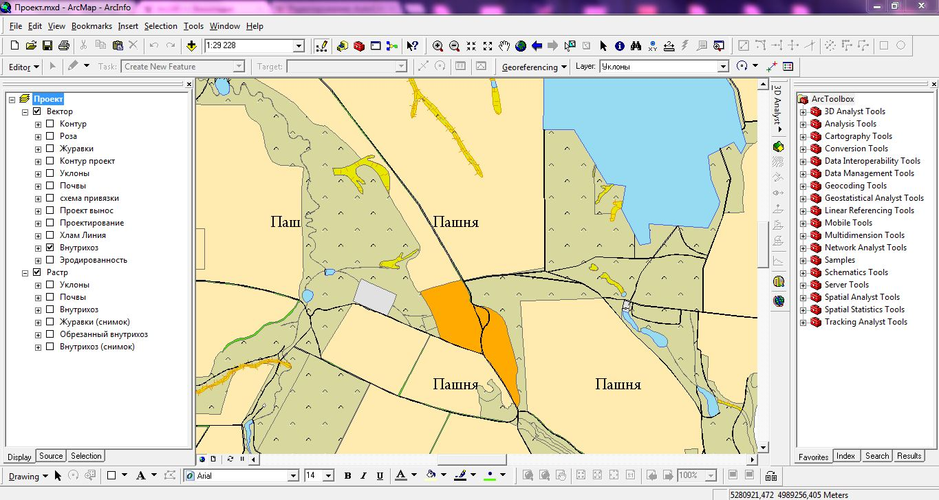 123чп